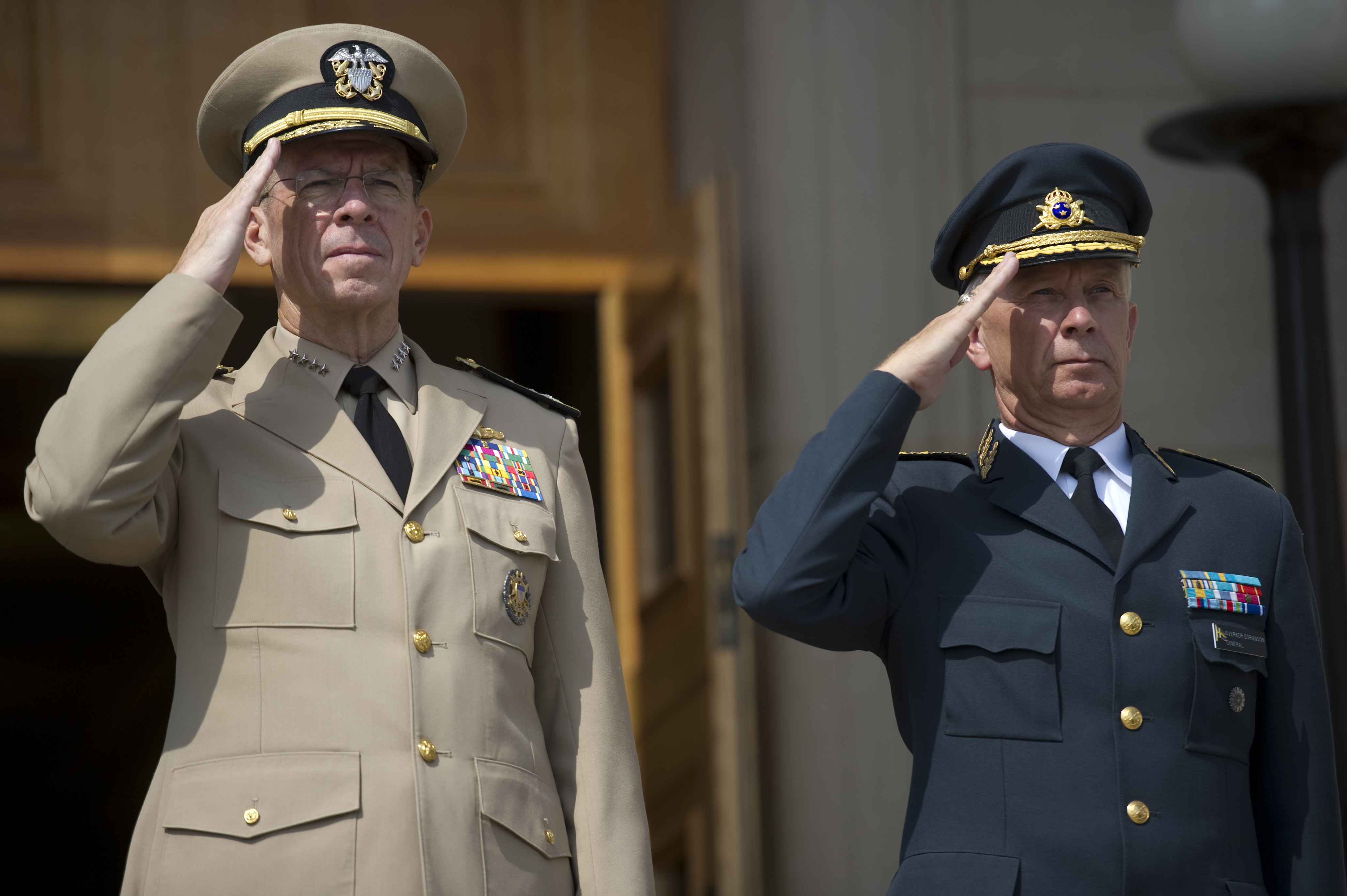 Navy Adm. Mike Mullen, chairman of the Joint Chiefs of Staff welcomes Gen. Sverker Goranson, supreme commander, Swedish Armed Forces to the Pentagon on August 5, 2010. (DoD photo by Mass Communication Specialist 1st Class Chad J. McNeeley/Released)